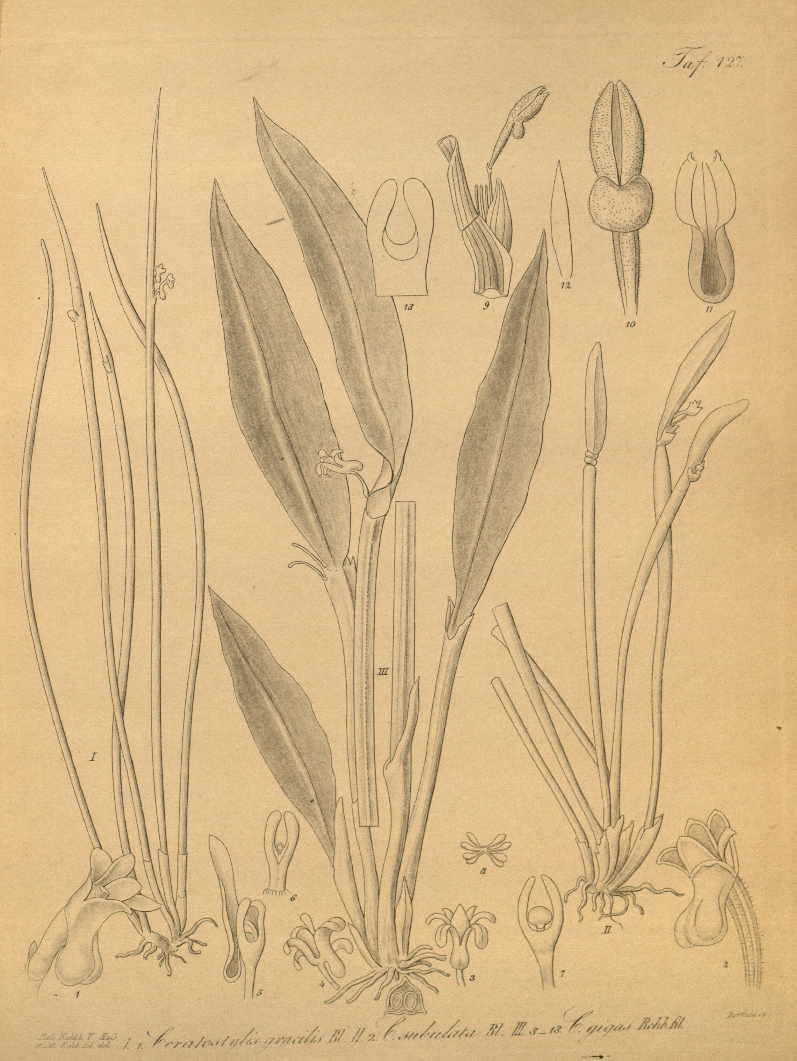 Illustration of I, 1. Ceratostylis gracilis II, 2 Ceratostylis subulata III, 3-13 Ceratostylis anceps (as syn. Ceratostylis gigas)